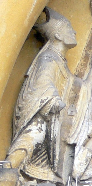 Eckbert of Andechs-Meranien in Bamberg, Dom St. Peter und St. Georg